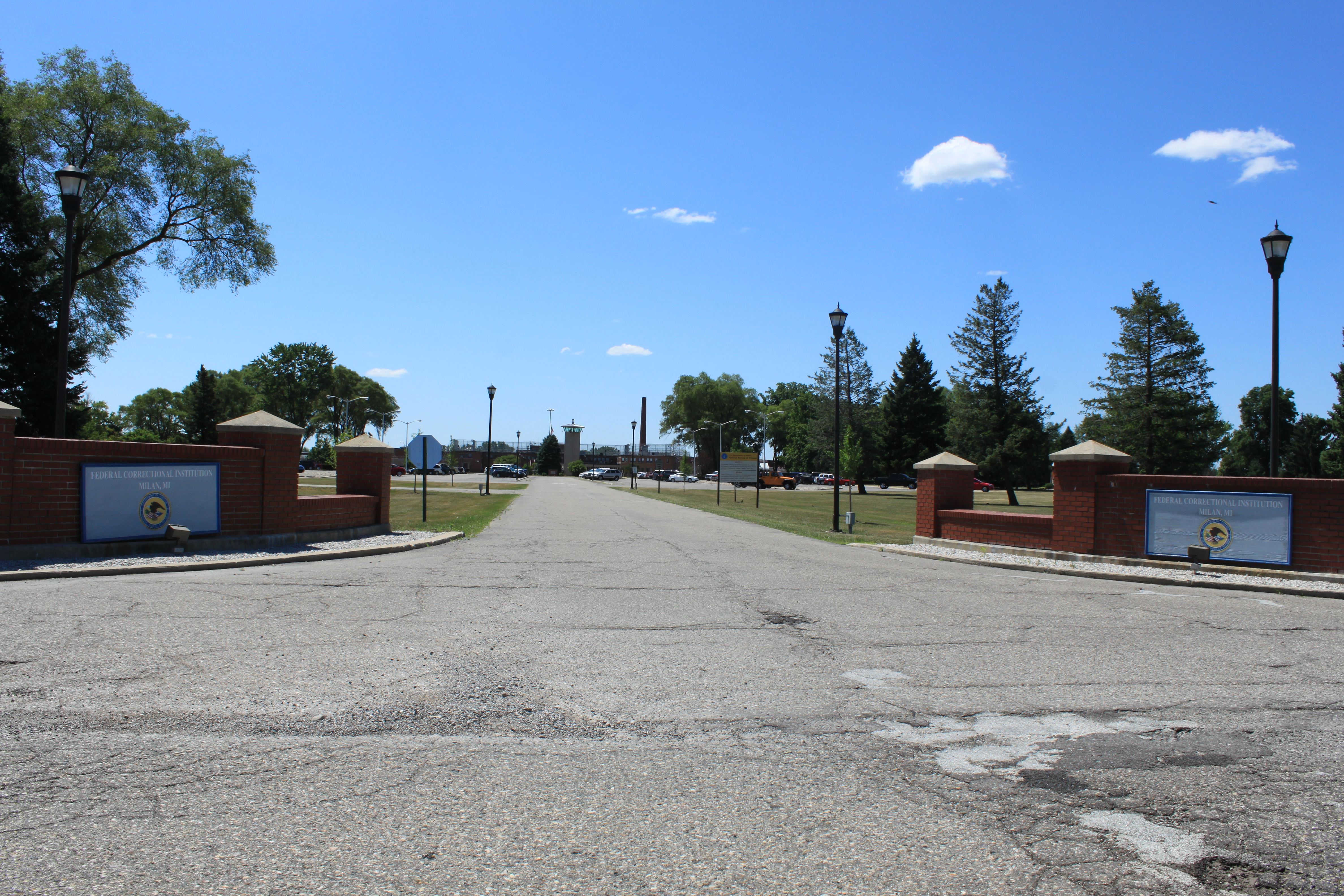 Federal Correctional Institution, Milan, entrance, 4000 Arkona Road, York Township (Milan), Michigan.